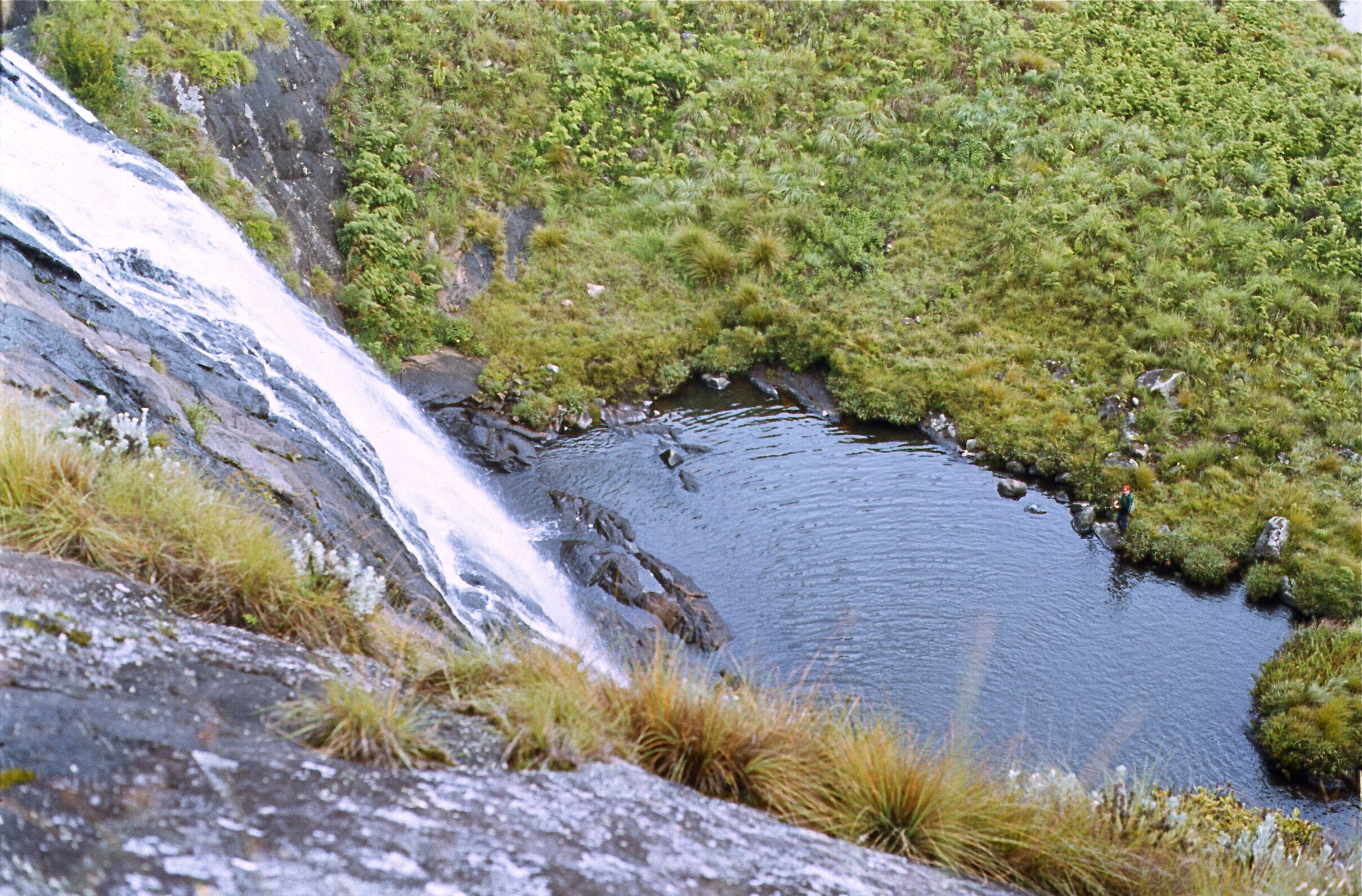 Picture taken from the top of the big waterfall (app. 50 m) on the second trout stream in the Palani Hills India.